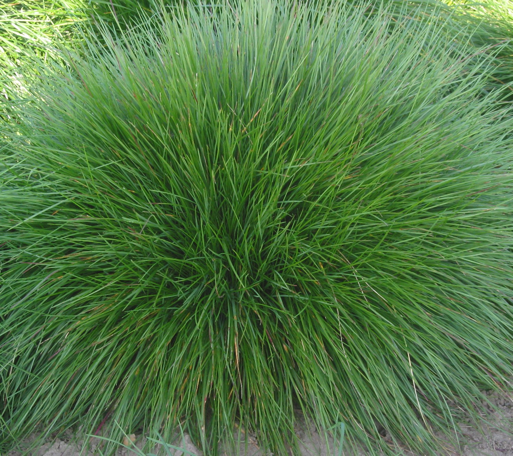 (nl: Gewoon roodzwenkgras) Festuca rubra var. commutata